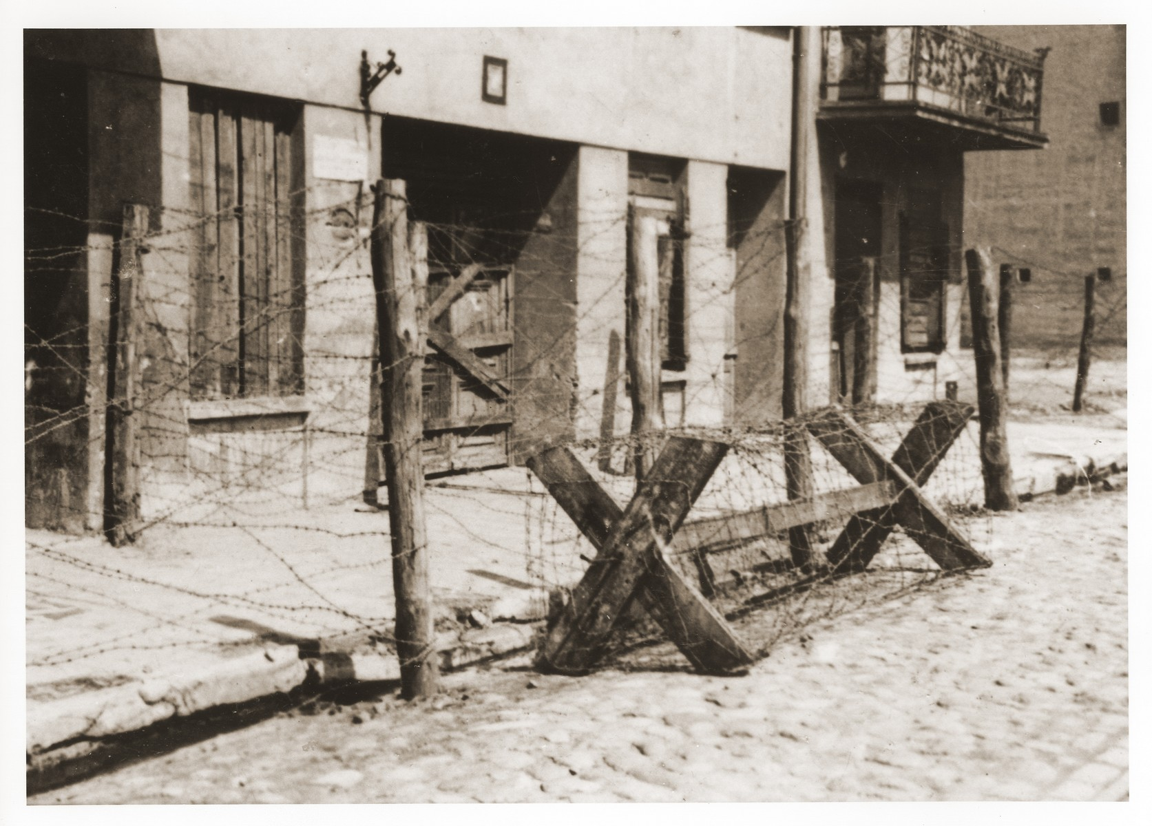 Ghetto Litzmannstadt: The Gypsy neighborhood in the ghetto, after its inhabitants were transported to the Chelmno death camp.